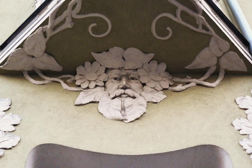 Poznan, Jezycki Market. Secession detail.